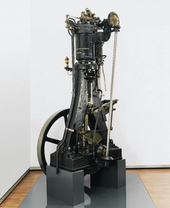 The first Diesel engine to run under its own power. This was the second engine built as part of the work of Rudolf Diesel (the first having never developed useful power). It went through hundreds of modifications between 1893 and 1896. The first successful run occurred Feb 17, 1894. The engine is presently displayed at the headquarters of MAN SE.